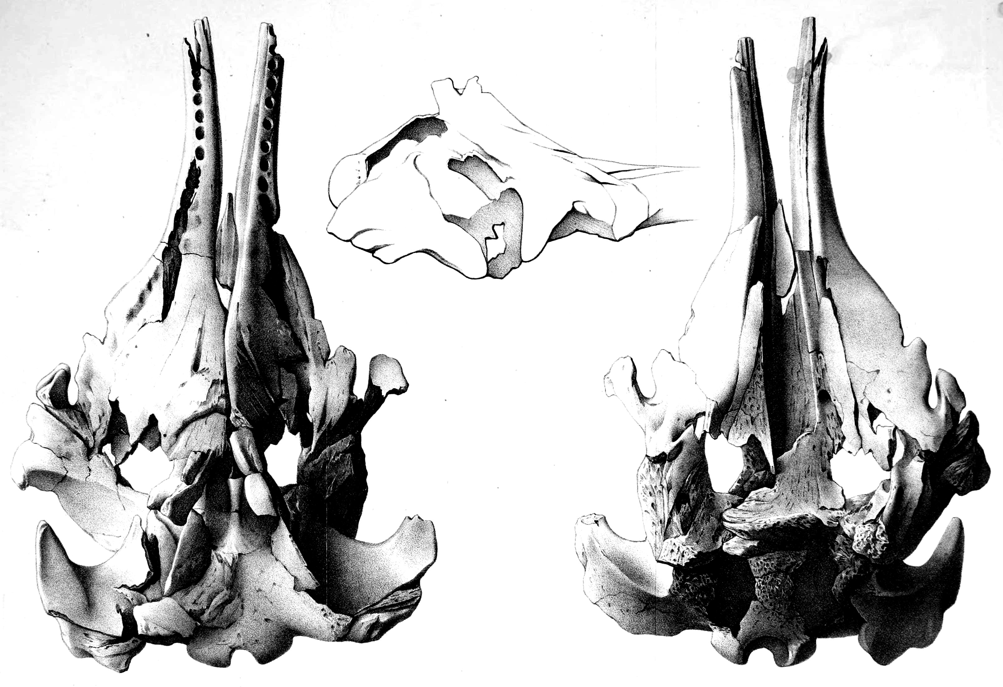 Mesocetus poucheti = Diaphorocetus poucheti by Moreno in 1892